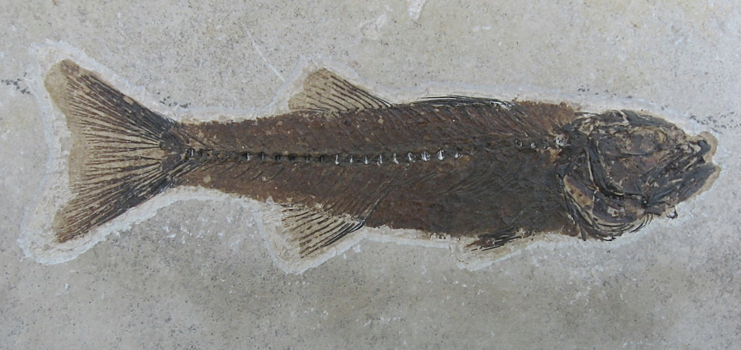 A 14 cm (5.5inch) Mioplosus labracoides specimen. Eocene, Green River Formation, Lincoln County, Wyoming. Stonerose Interpretive Center Specimen.